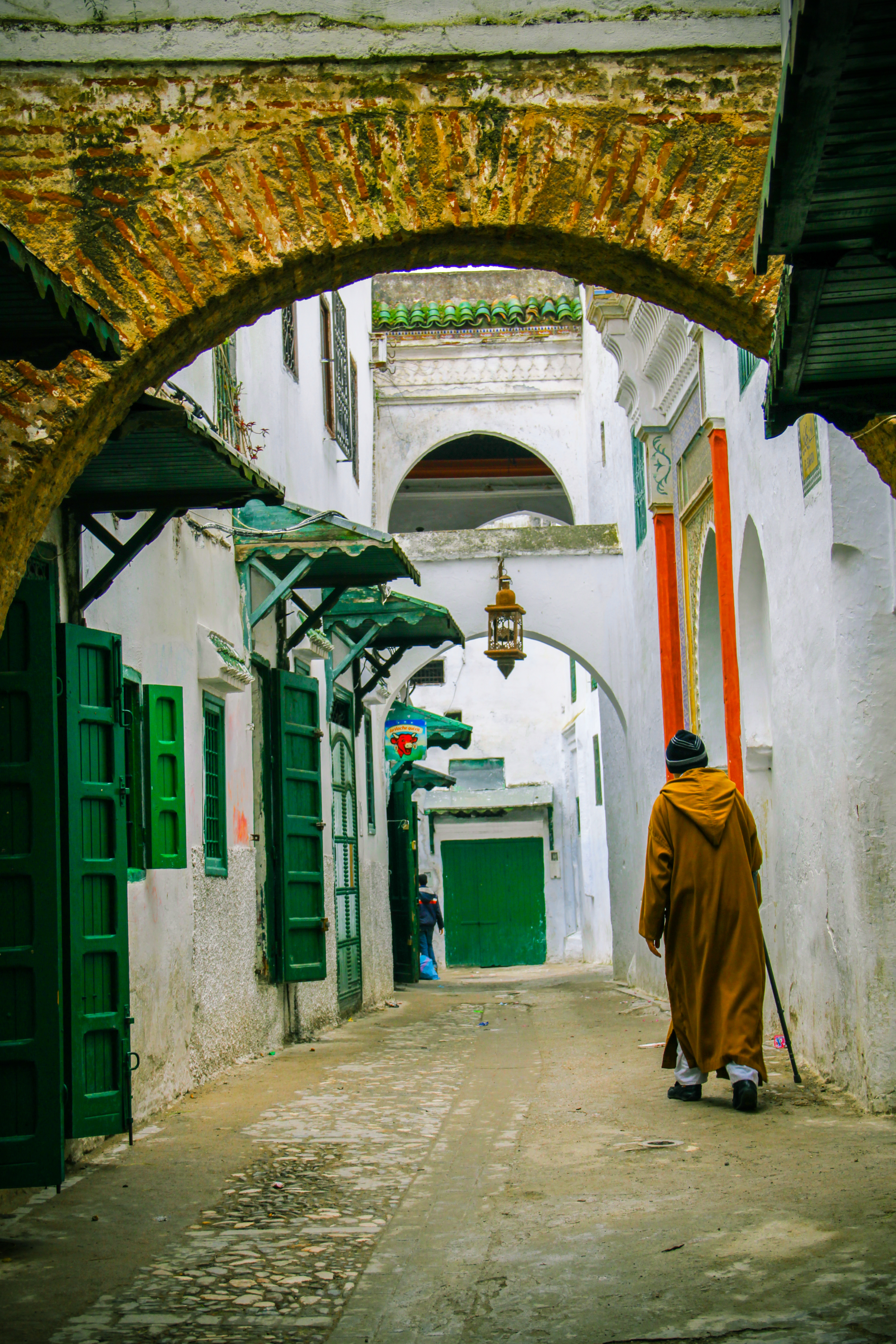 Old Medina of Tetùan. This is an image of Cultural Fashion or Adornment from Morocco